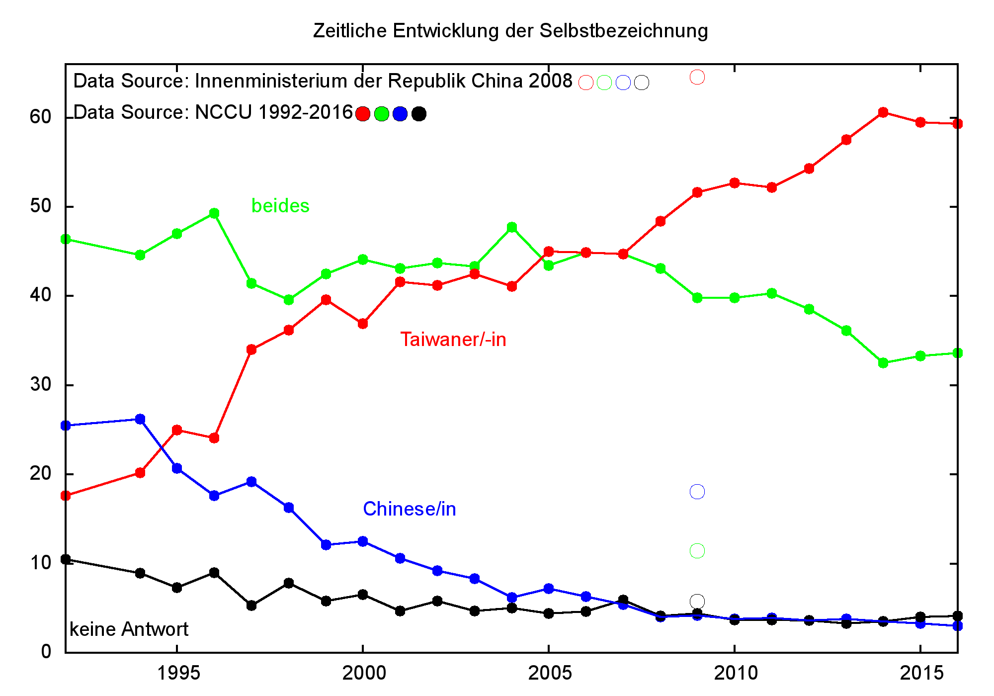 Temporal Development of Chinese/Taiwanese Identity in the Republic of China